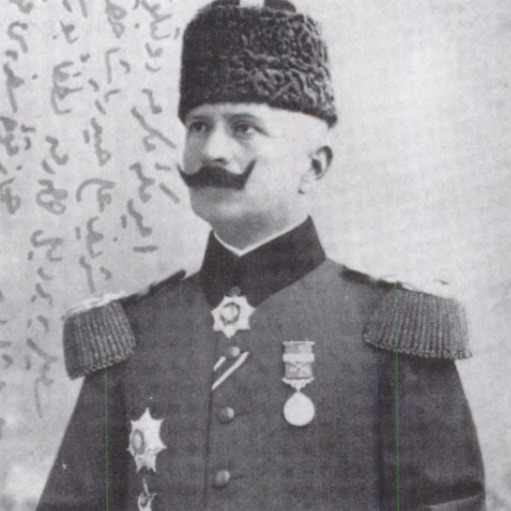 Fakhri Pasha was the commander of the Ottoman army and governor of Medina from 1916 to 1919. (Cropped image, dates before 1923)